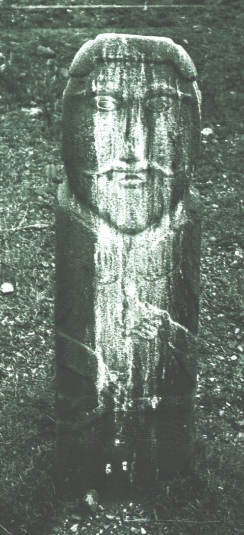 Ulug-Khorum